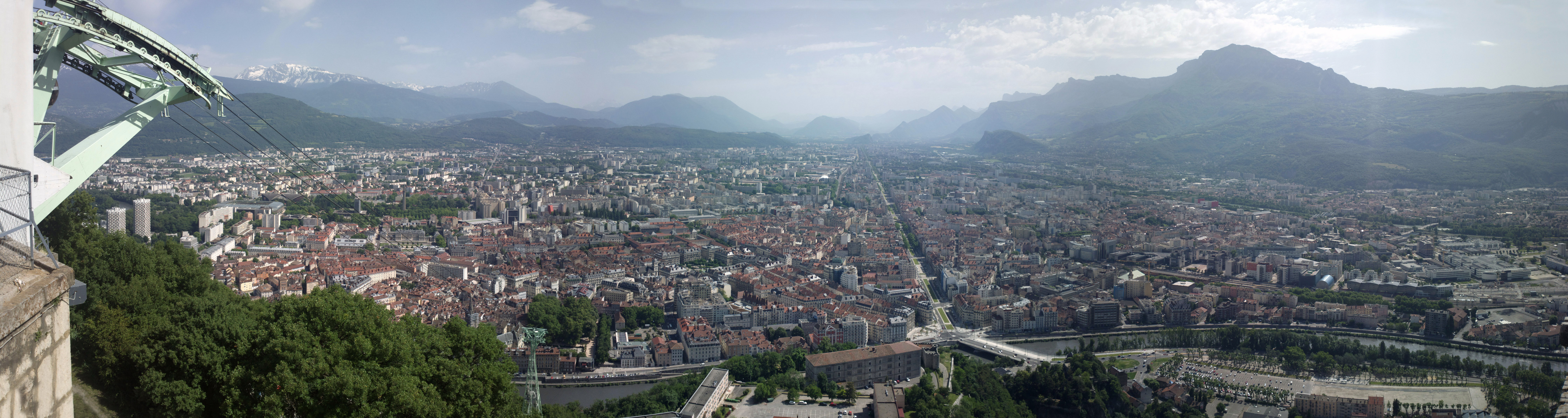 Bastille cable: Panoramic view over Grenoble cours Jean Jaures / Libération du Générale De Gaule.